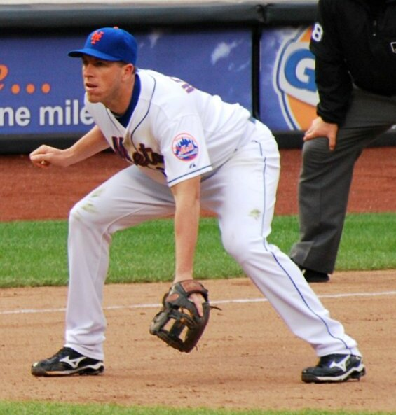 Oliver Pérez and Mike Hessman of the New York Mets, October 3, 2010.